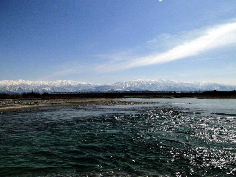 Kurobe_River